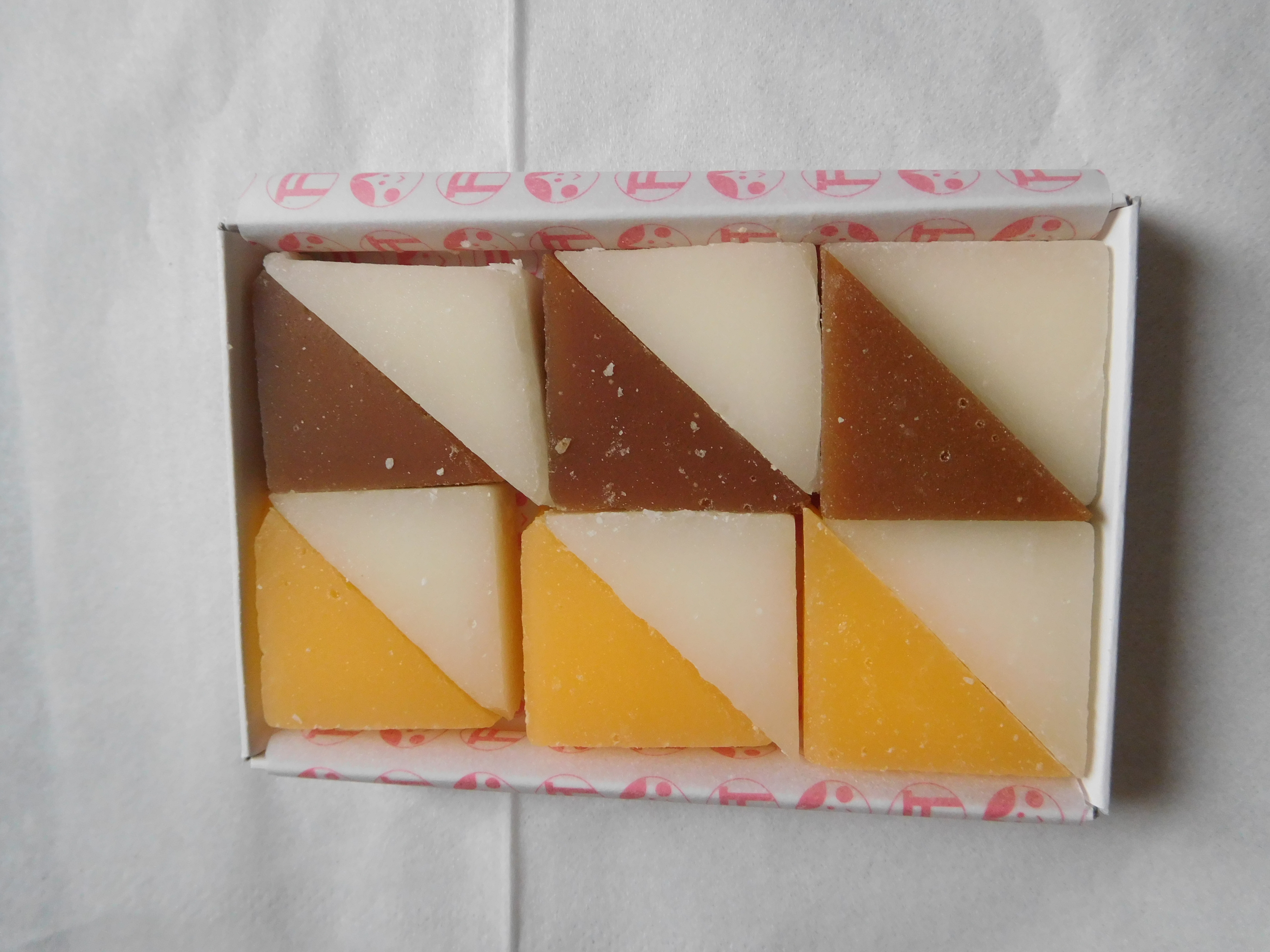 These are shogatos (literally means "ginger sugar", translate in English "ginger candy"), made by Iwatoya in Ise, Japan. White ones are traditional shogatos, orange ones are mango tastes and brown ones are brown sugar tastes.